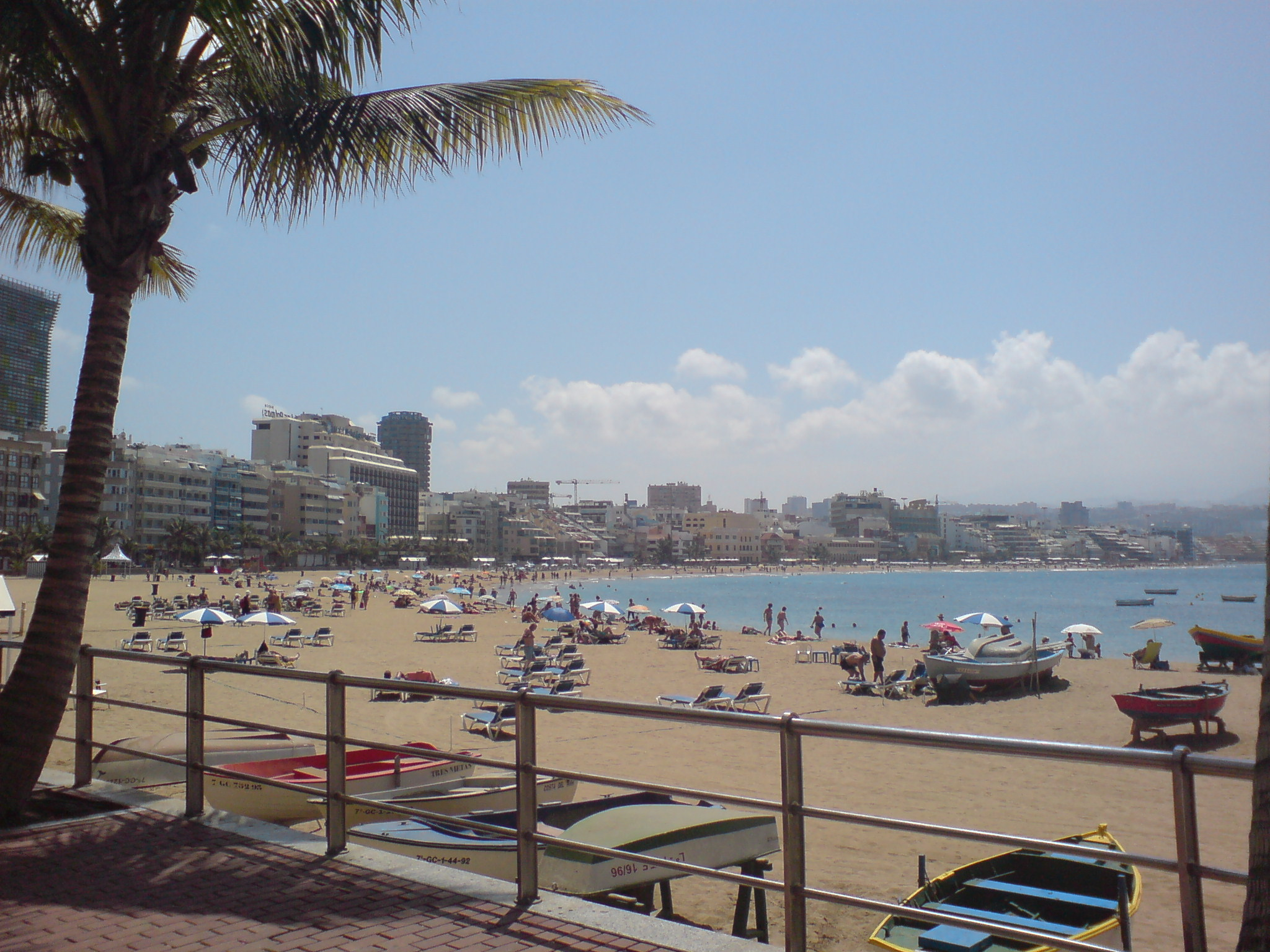 A view of Las Canteras Beach from La Puntilla. Las Palmas de Gran Canaria (Gran Canaria), Canary Islands. Spain.